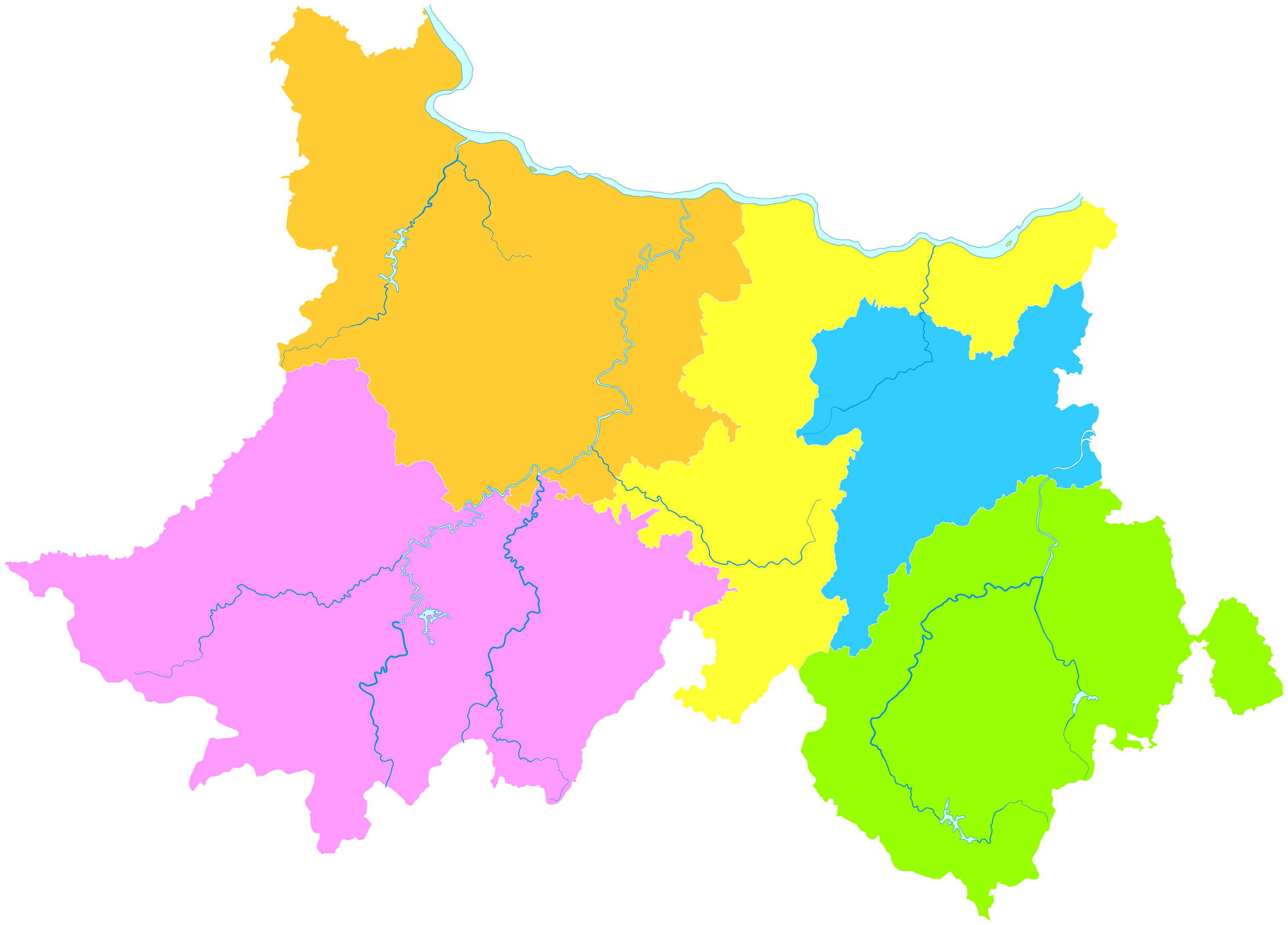 administrative division of Yunfu City, Guangdong, China